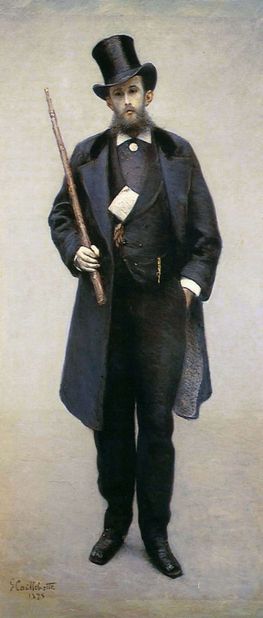 Portrait of Paul Hugot